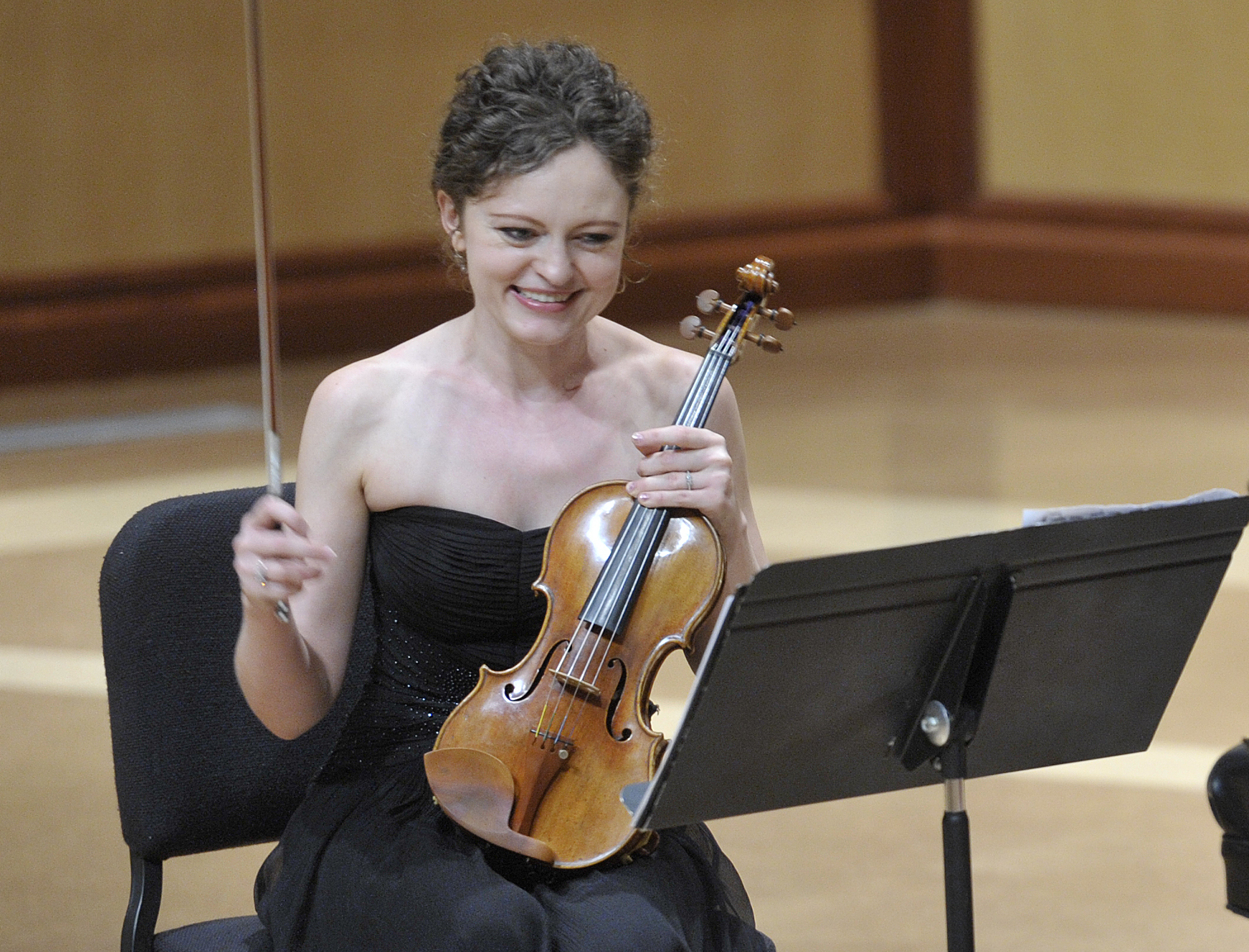 Violinist Iryna Krechkovsky in a recent performance on November 15, 2013